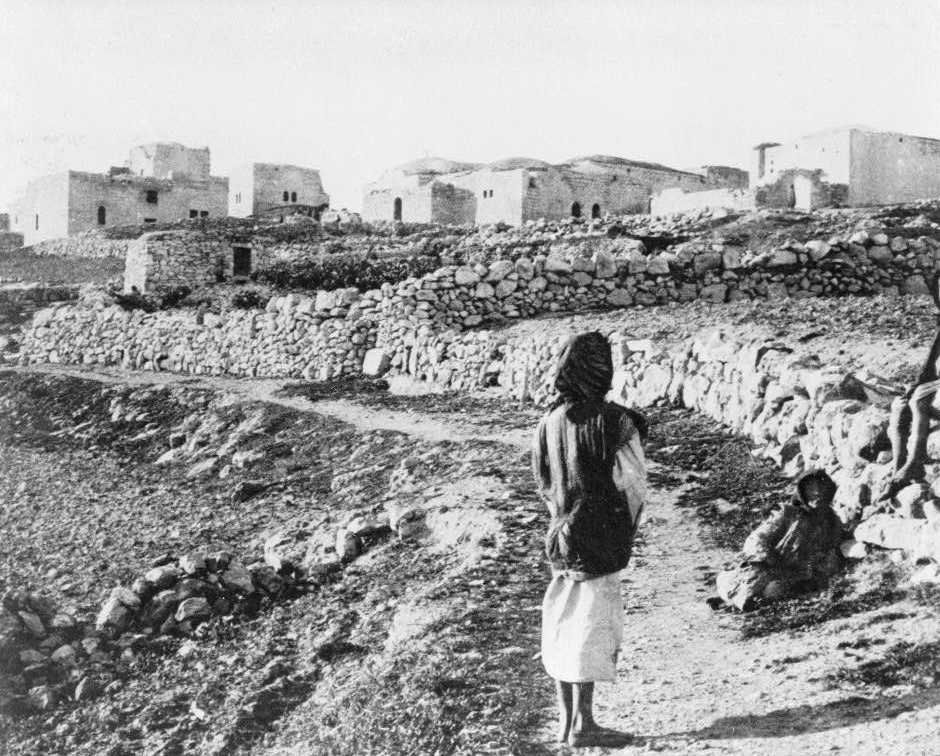 Anathoth, home of Jeremiah Date Created/Published: [between 1900 and 1934]